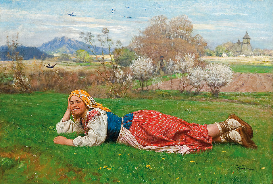 Springtime